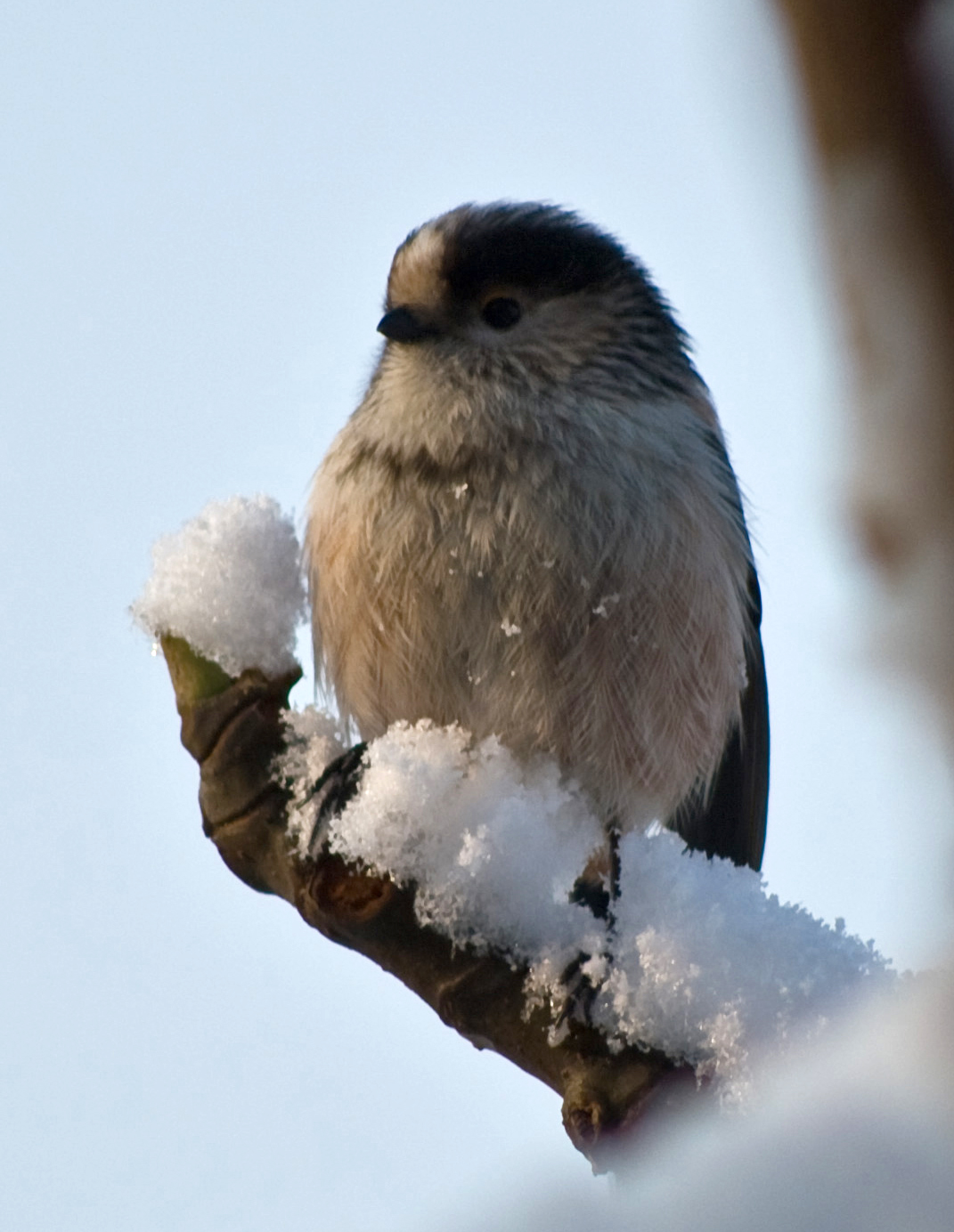 Long-tailed Tit Aegithalos caudatus italiae, Bussero, Lombardia, Italy